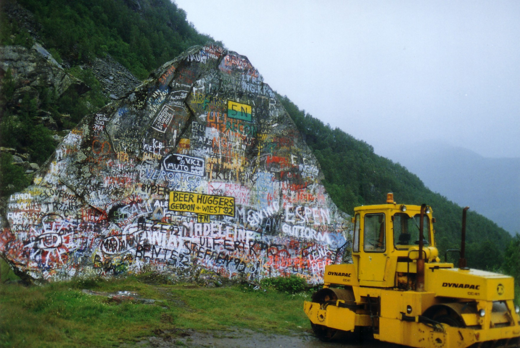 The 'Name Stone' near Nordkjosbotn in the county of Troms, North Norway